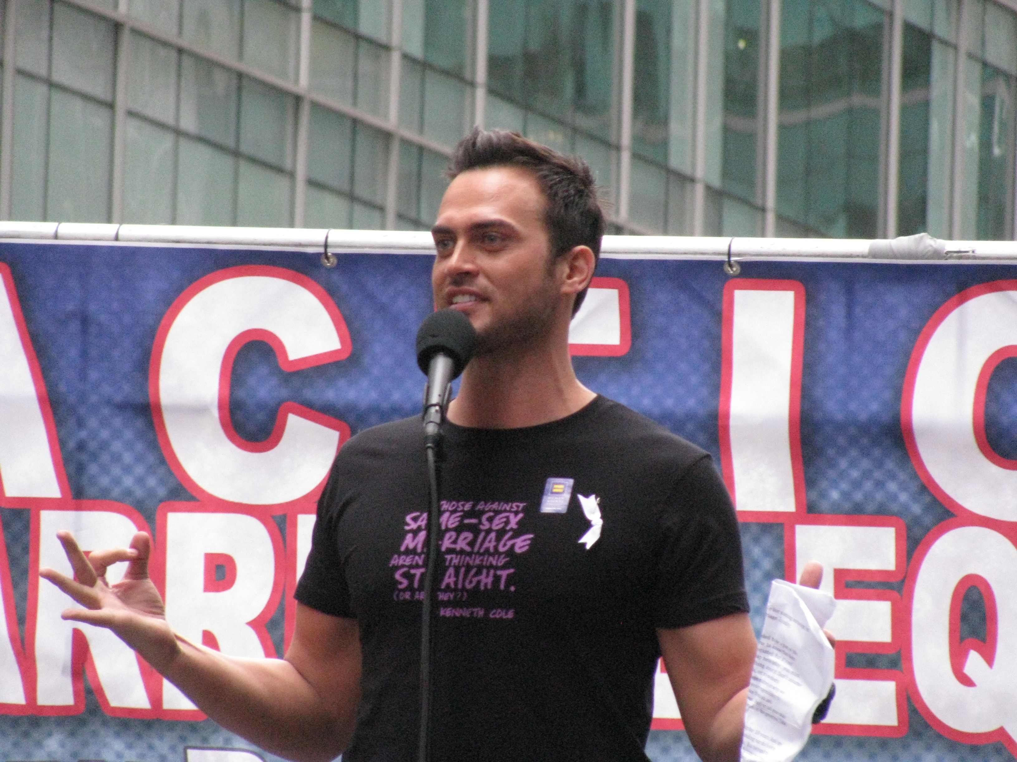 Cheyenne Jackson at a New York rally for same-sex marriage equality on May 17, 2009